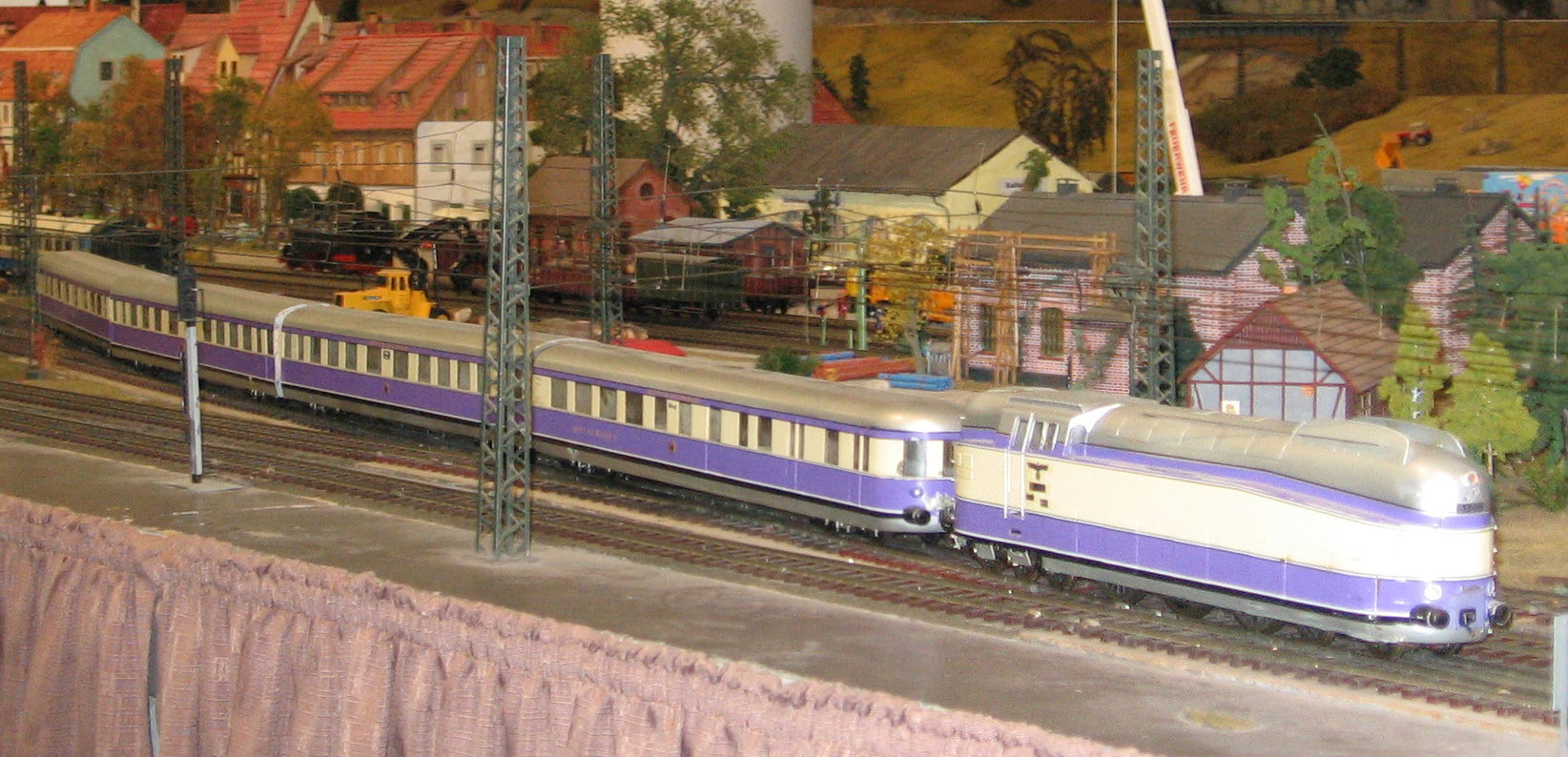 Scale 0 model of Henschel-Wegmann-Zug in Transport museum Dresden